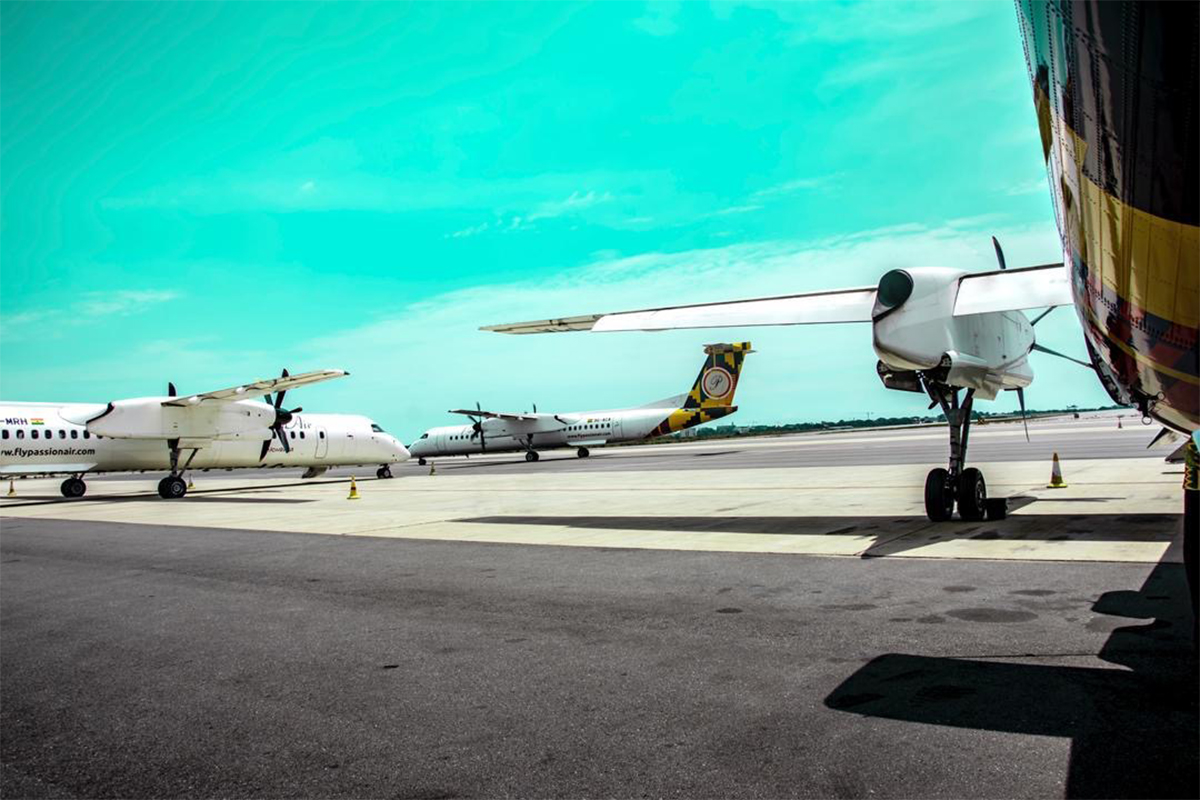 Three PassionAir Aircraft